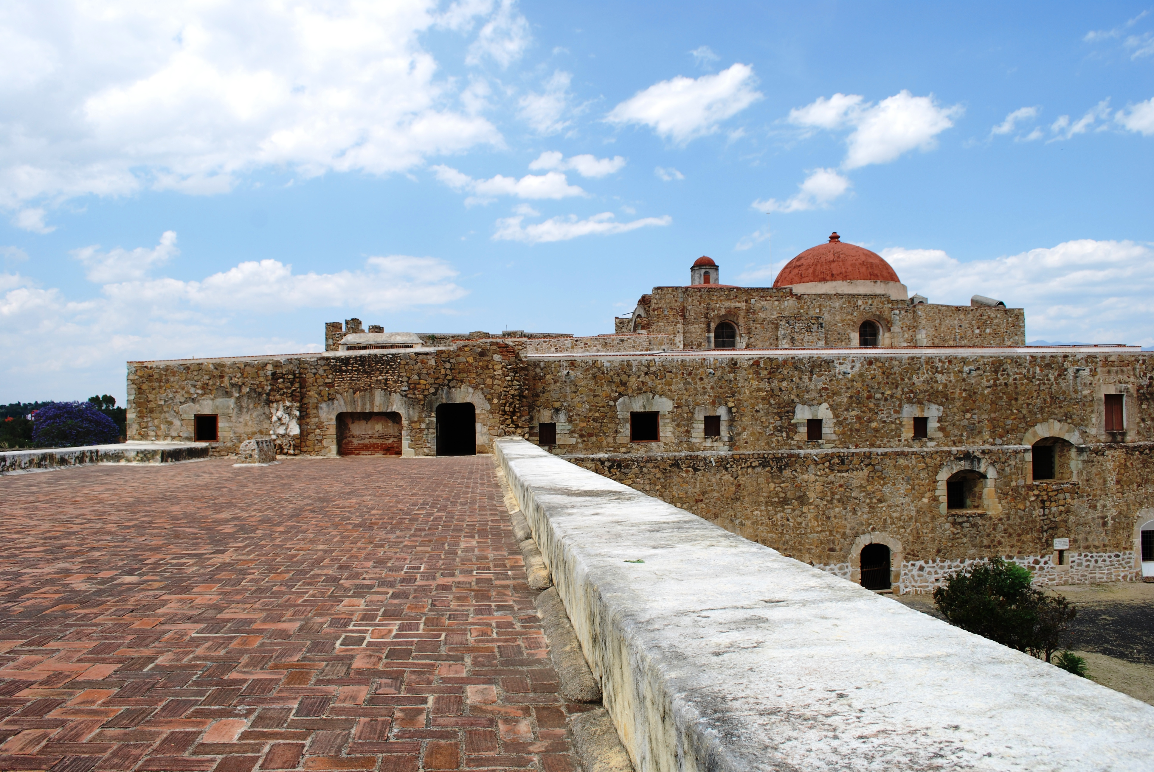 View of the former monastery complex of Cuilapam from the south wing.. in Cuilapam, Oaxaca, Mexico